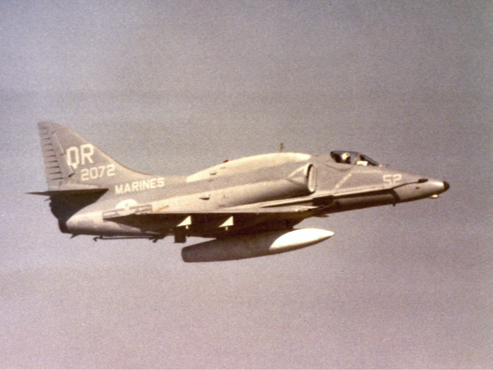 A U.S. Marine Corps Reserve Douglas A-4E Skyhawk (BuNo 152072) from Marine Attack Squadron VMA-322 Fighting Gamecocks in flight.